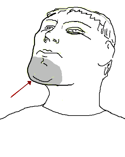 Man's chin